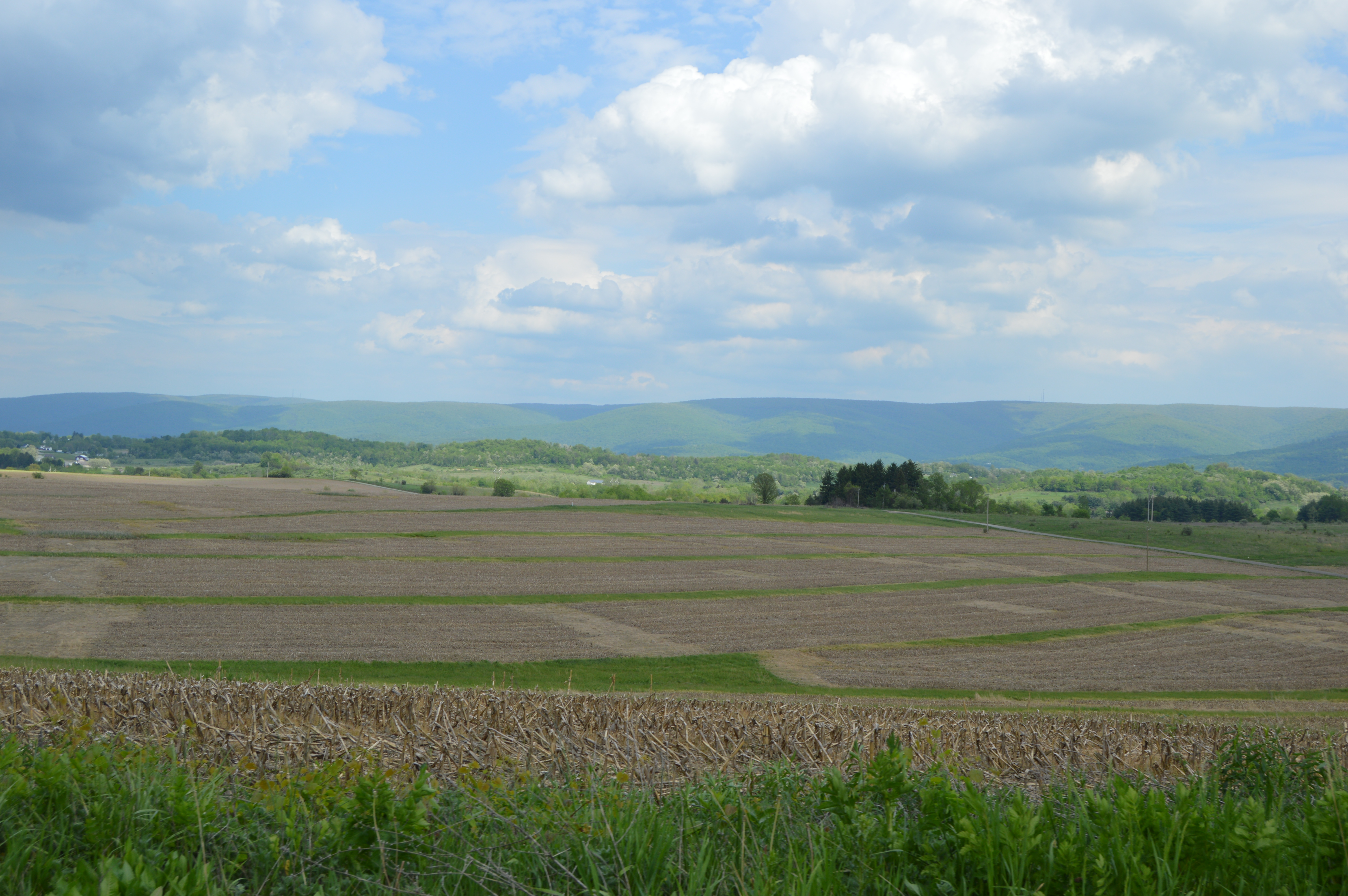 Overview of fields and wooded hills (the western side of Chestnut Ridge), seen looking east from Smithfield Highhouse Road just east of Shoaf in Georges Township, Fayette County, Pennsylvania, United States.